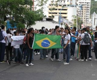 ETE Henrique Lage